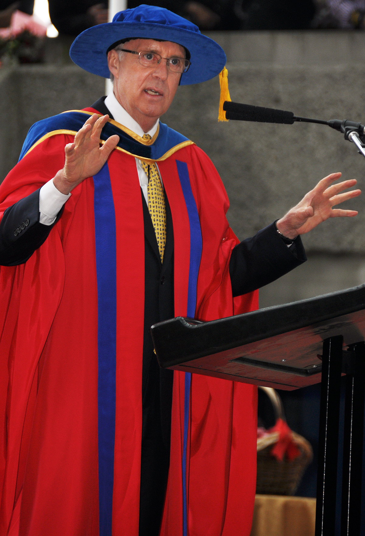 Legendary sports broadcaster Brian Williams was recognized with an honorary degree by SFU on June 16, 2011.